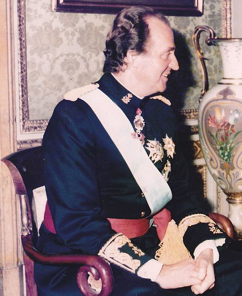 King Juan Carlos of Spain (cropped) in a public ceremony during the presentation of credentials by the Algerian ambassador Khatib, Madrid 1988